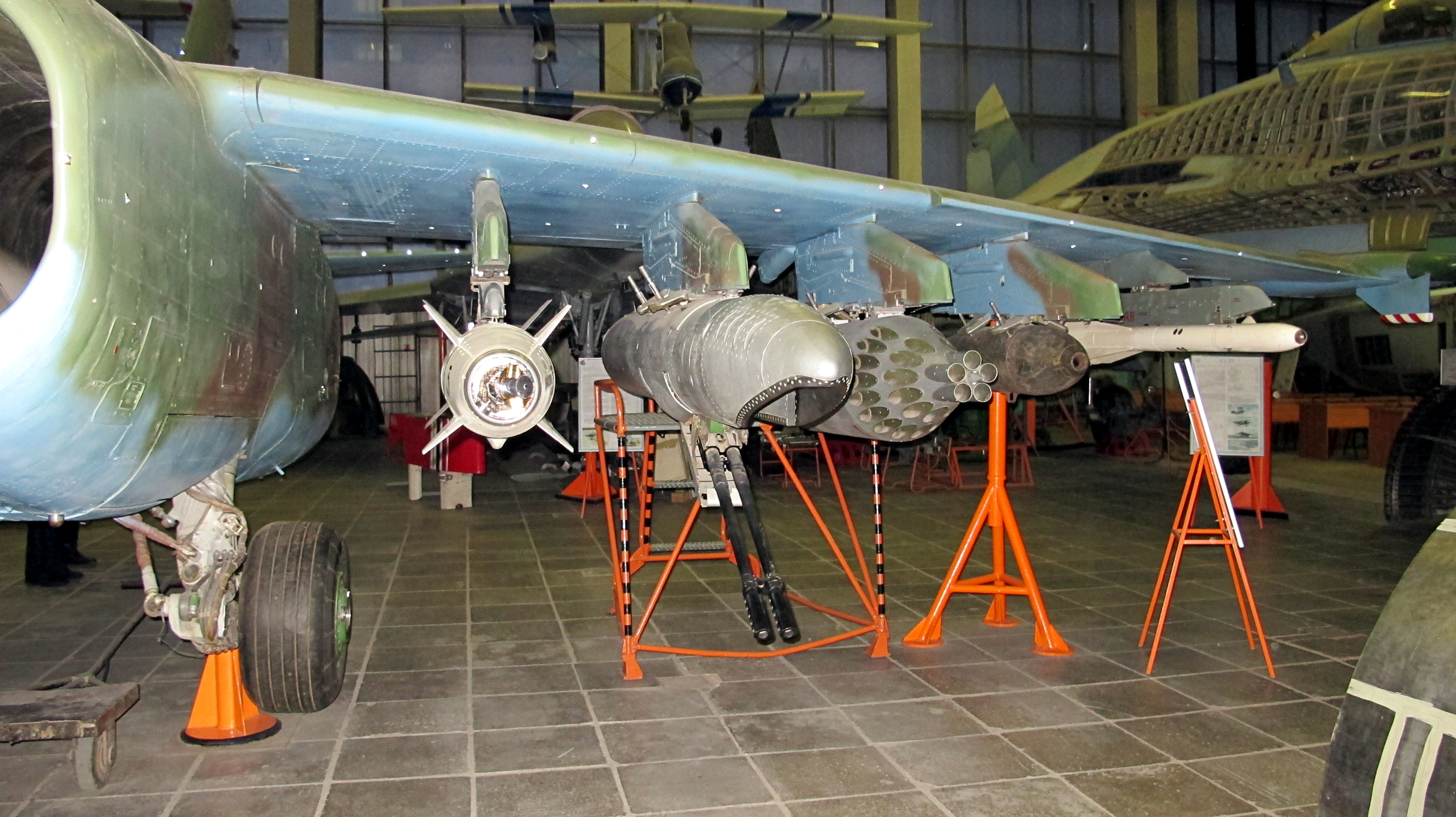 Wikitrip to MAI museum 2016-02-02